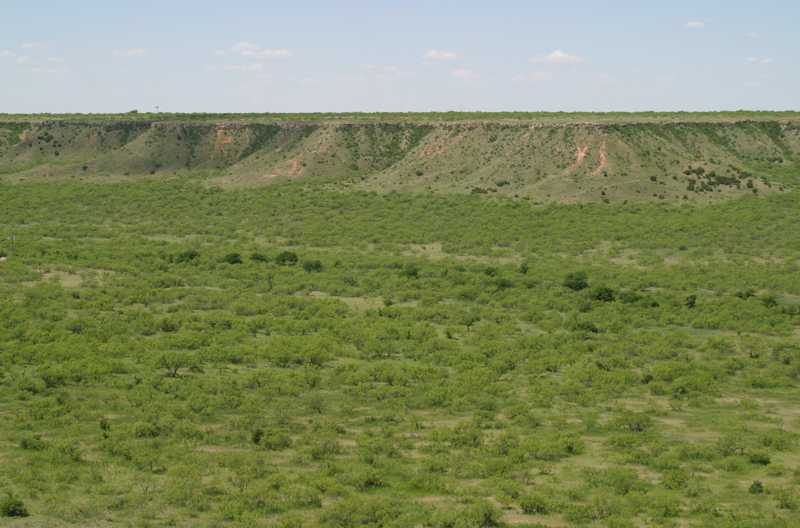 View across Blanco Canyon in late spring of 2009. In the past, Blanco Canyon was carved by springs flowing from the Ogallala Aquifer into the White River. Depletion of the Ogallala Aquifer has reduced or eliminated spring flows and now the White River only flows during major rainstorms.